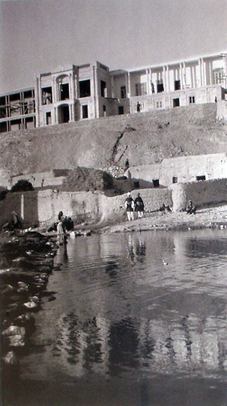 Bukan 1913